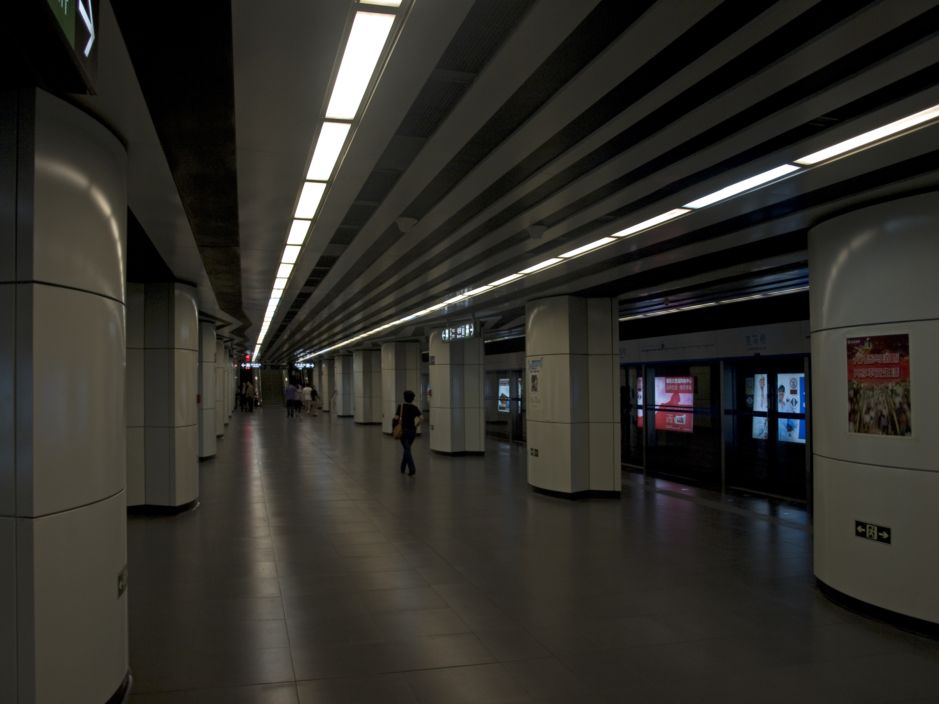 Liangmaqiao station, Beijing Subway